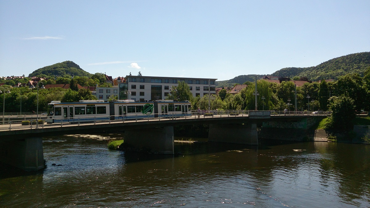 Die Saale in der Jenaer Innenstadt.